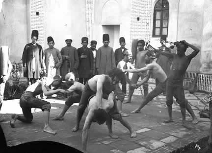 Antoin sevruguin's historical photographs